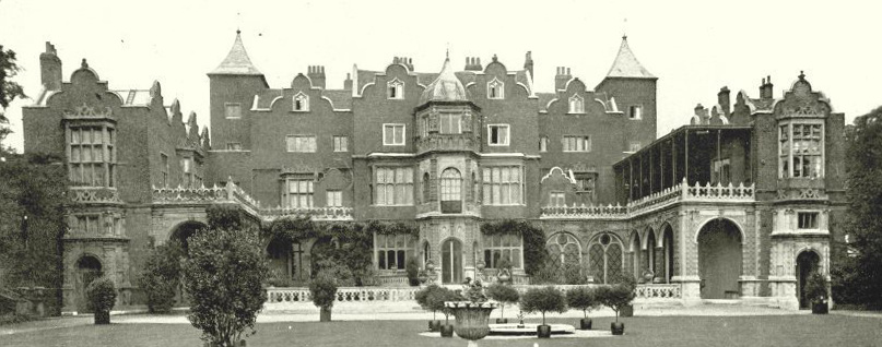 The south front of Holland House in 1896.